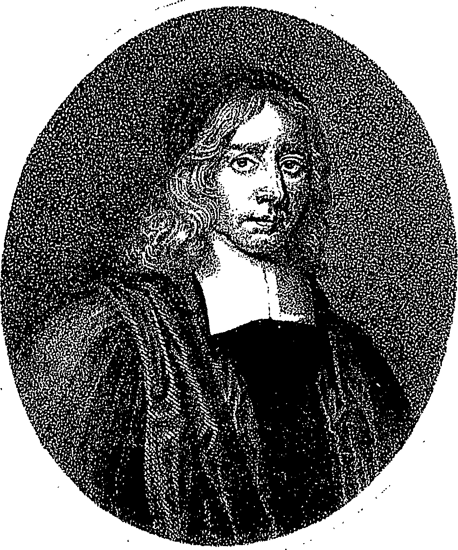 Fleuron from book: Memoirs of the life and writings of Thomas Comber, D.D. Sometime Dean of Durham, in which is introduced a candid view of the scope and execution of the several works of Doctor Comber, As well printed as MS. Also, A fair Account of his Literary Correspondence. Compiled from the Original Mss. by his great grandson Thomas Comber, A. B. Late of Jesus College, Cambridge.